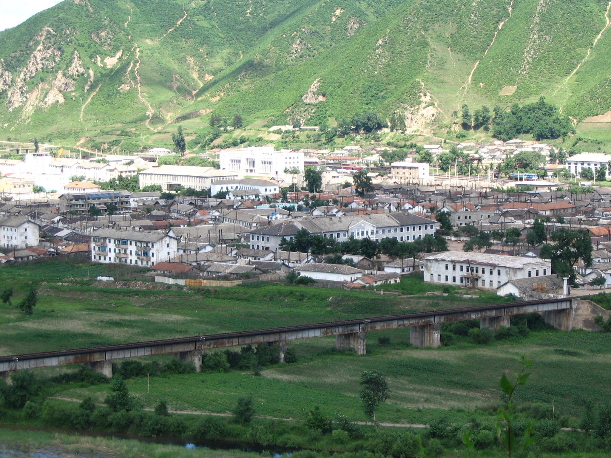 The city of Namyang, North Korea. Picture taken from the Chinese side of the Tumen River, at Tumen City. The bridge which crosses the Tumen River into China is in the foreground.